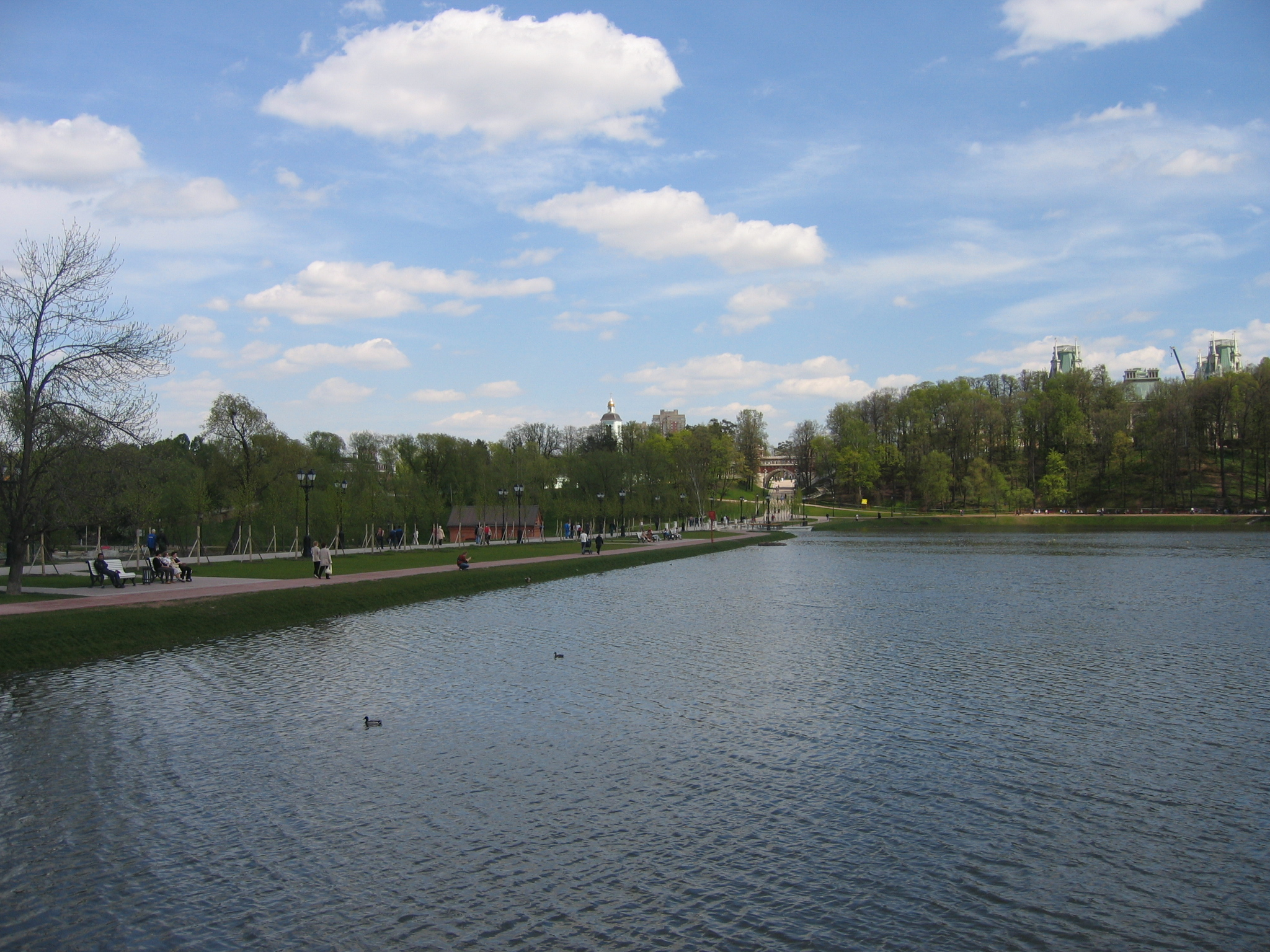 Tsaritsino Park in Moscow